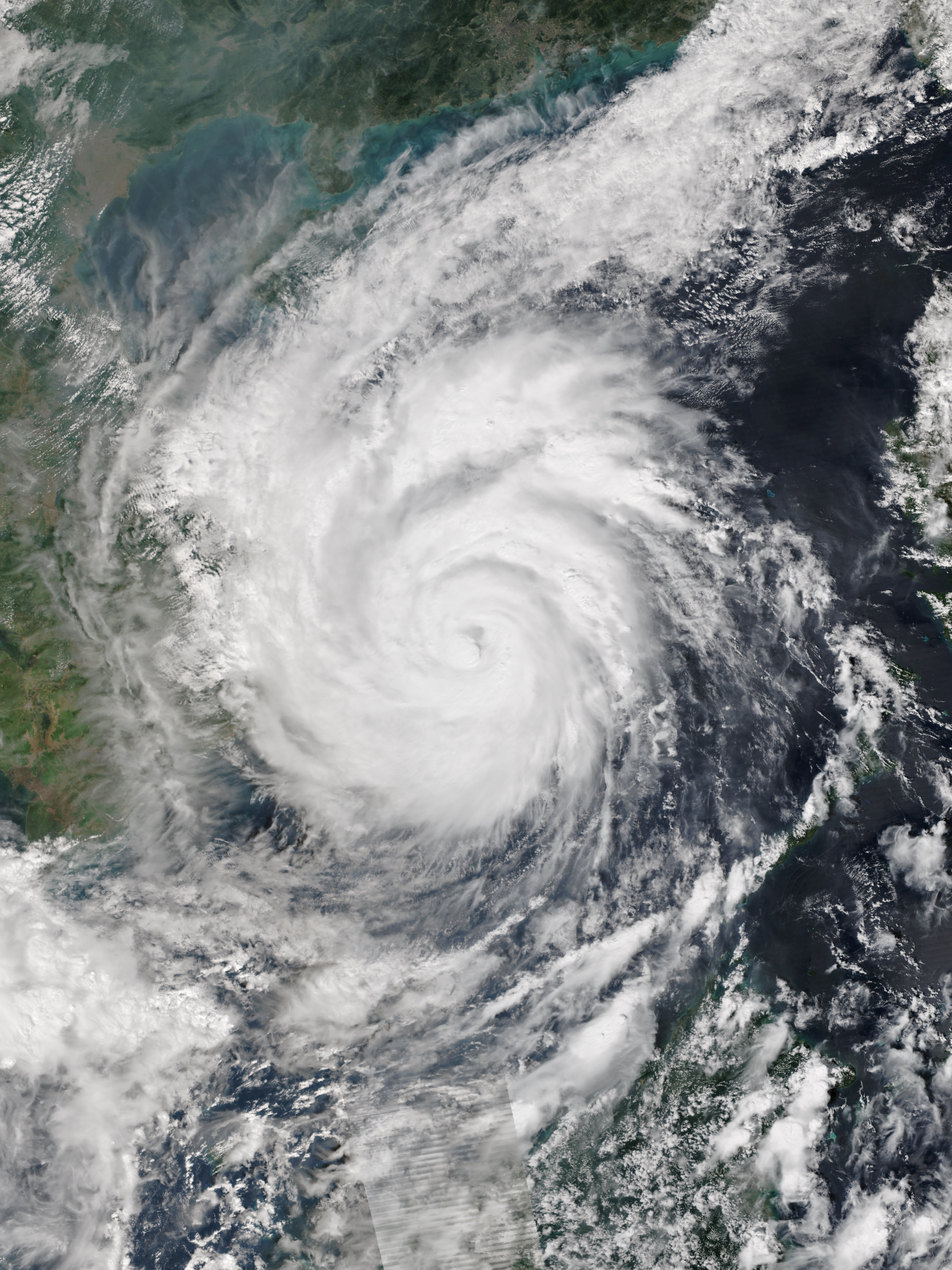 Typhoon Damrey approaching Khánh Hòa Province, Vietnam at peak intensity on November 3, 2017.